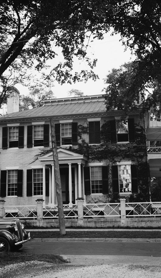 Front photographic view of Beverley Hall, 114 West King Street, Edenton, Chowan County, North Carolina. Historic American Buildings Survey, Library of Congress, Washington, D. C.